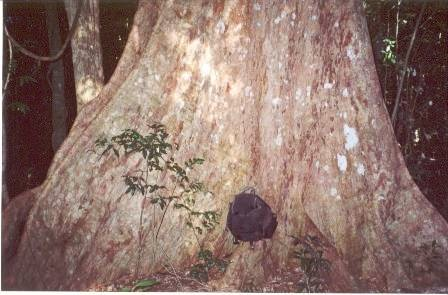 Syzygium_francisii, 45 metres tall at Booyong Reserve, near Lismore, black object is my back-pack